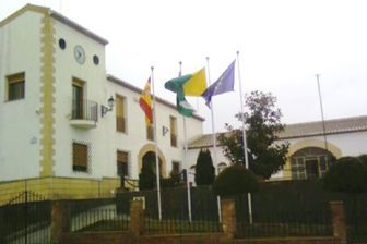 Láchar's town hall, in Granada (Spain)